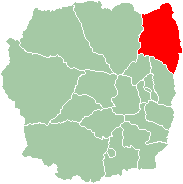 Location map of Anjozorobe region in Antananarivo province.